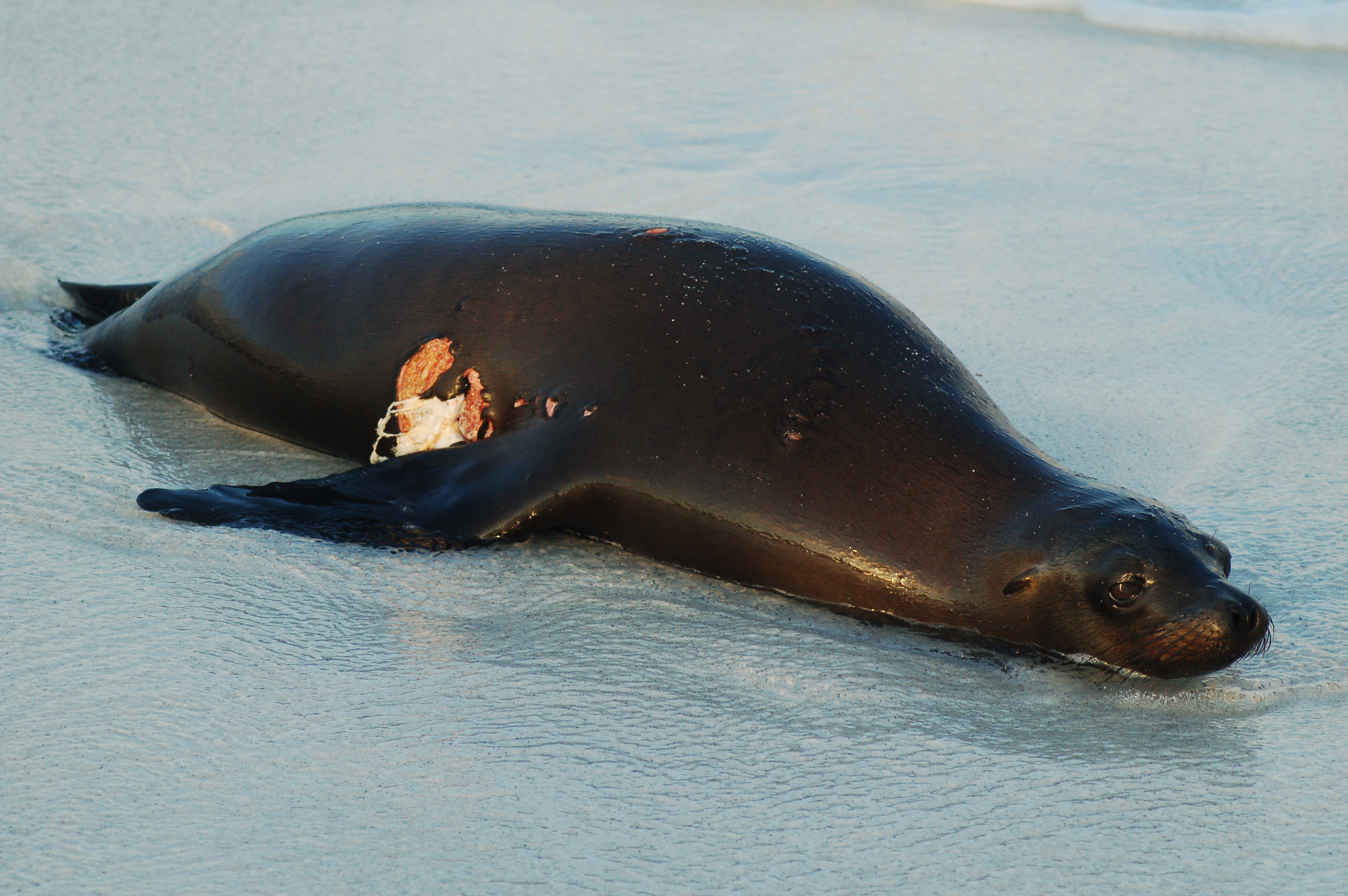 ...with bite.